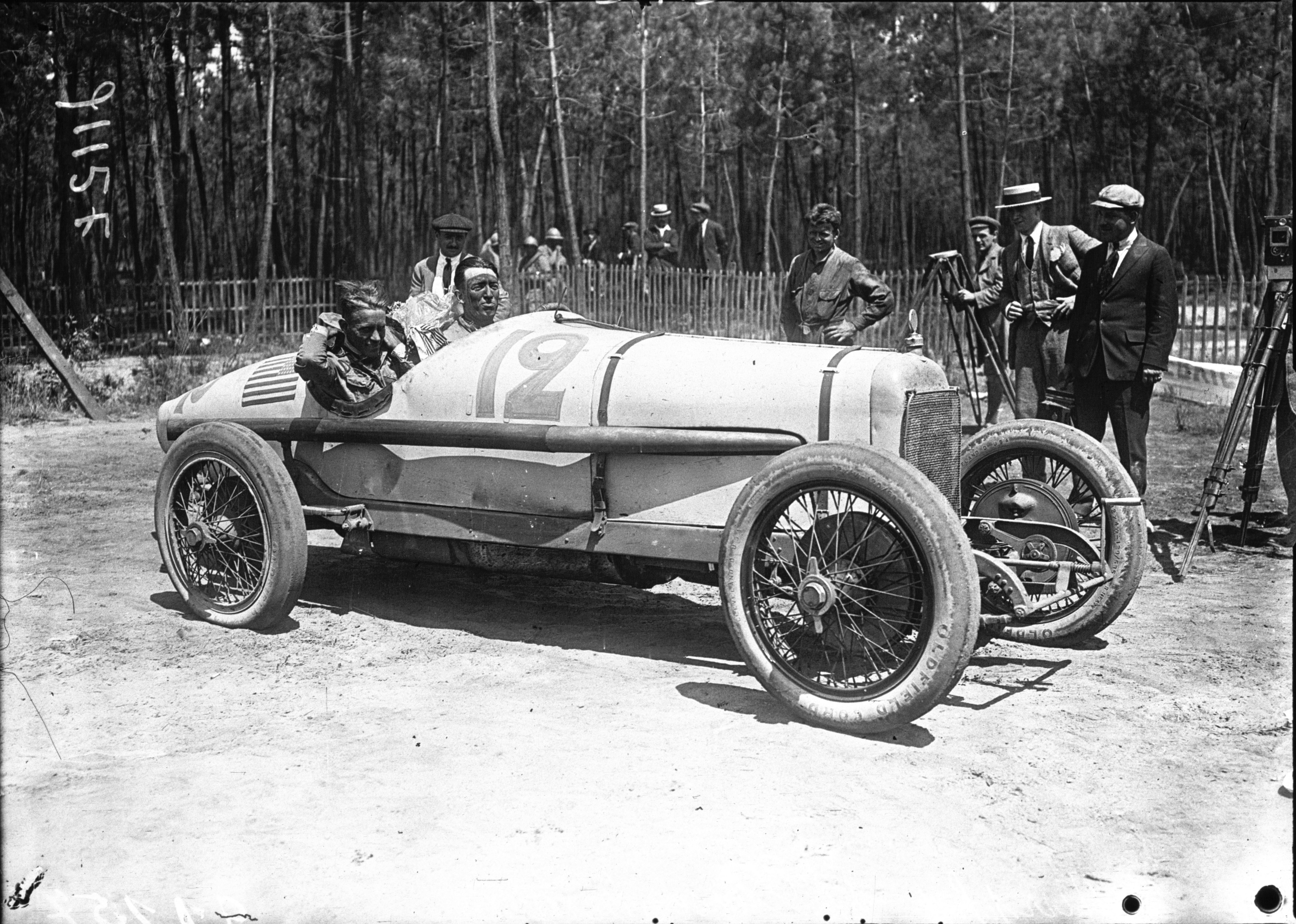 James Anthony Murphy at the 1921 French Grand Prix.